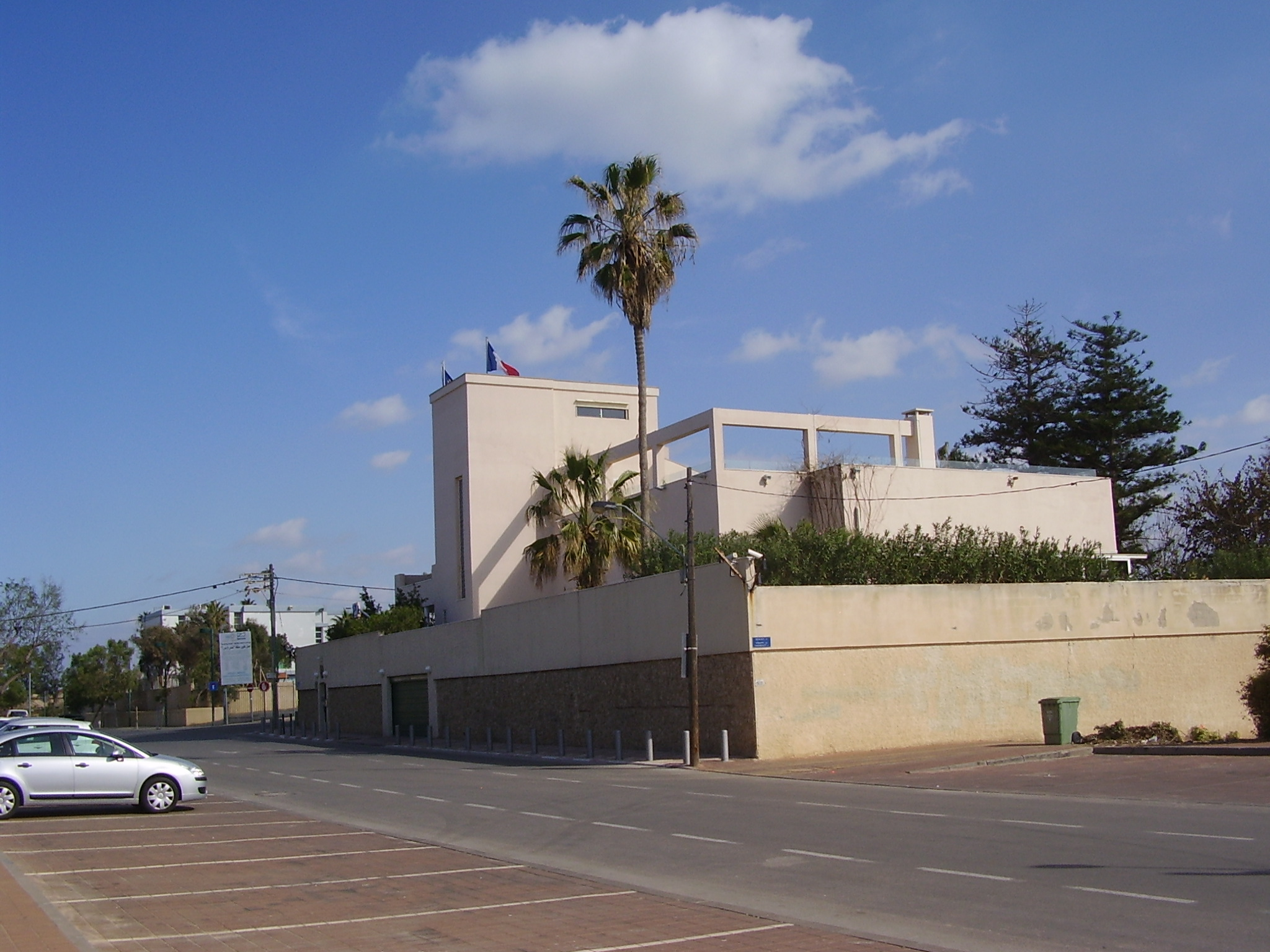 french ambassador residence in jaffa